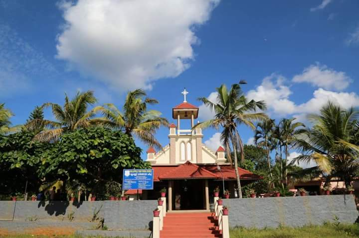 Marthoma church in Keezhvaipur